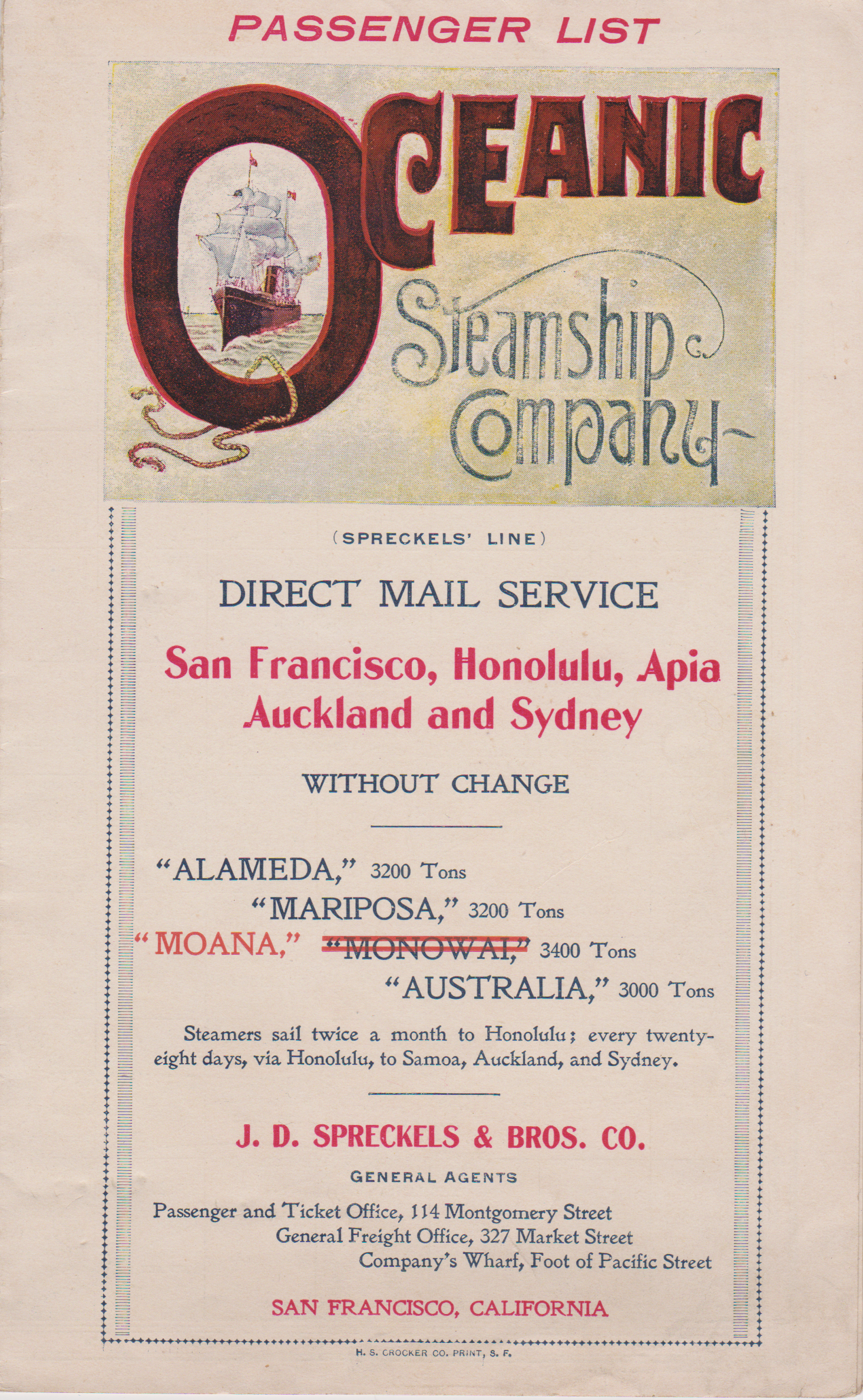 Cover of passenger list for departure of Oceanic Steamship Lines SS Australia from San Francisco, California on July 26, 1899